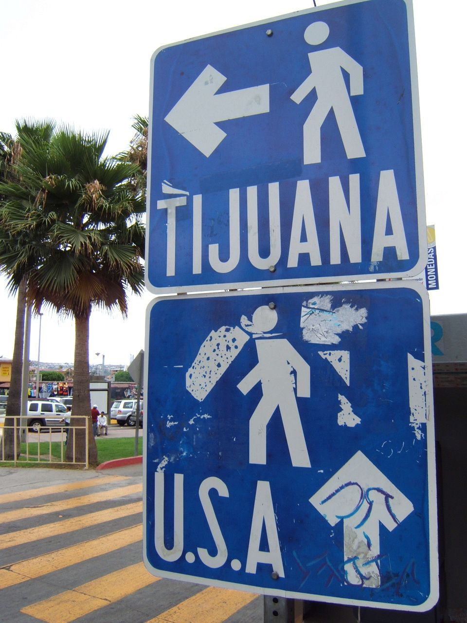 sign showing pedestrians the way to the border crossing and the way to Tijuana center